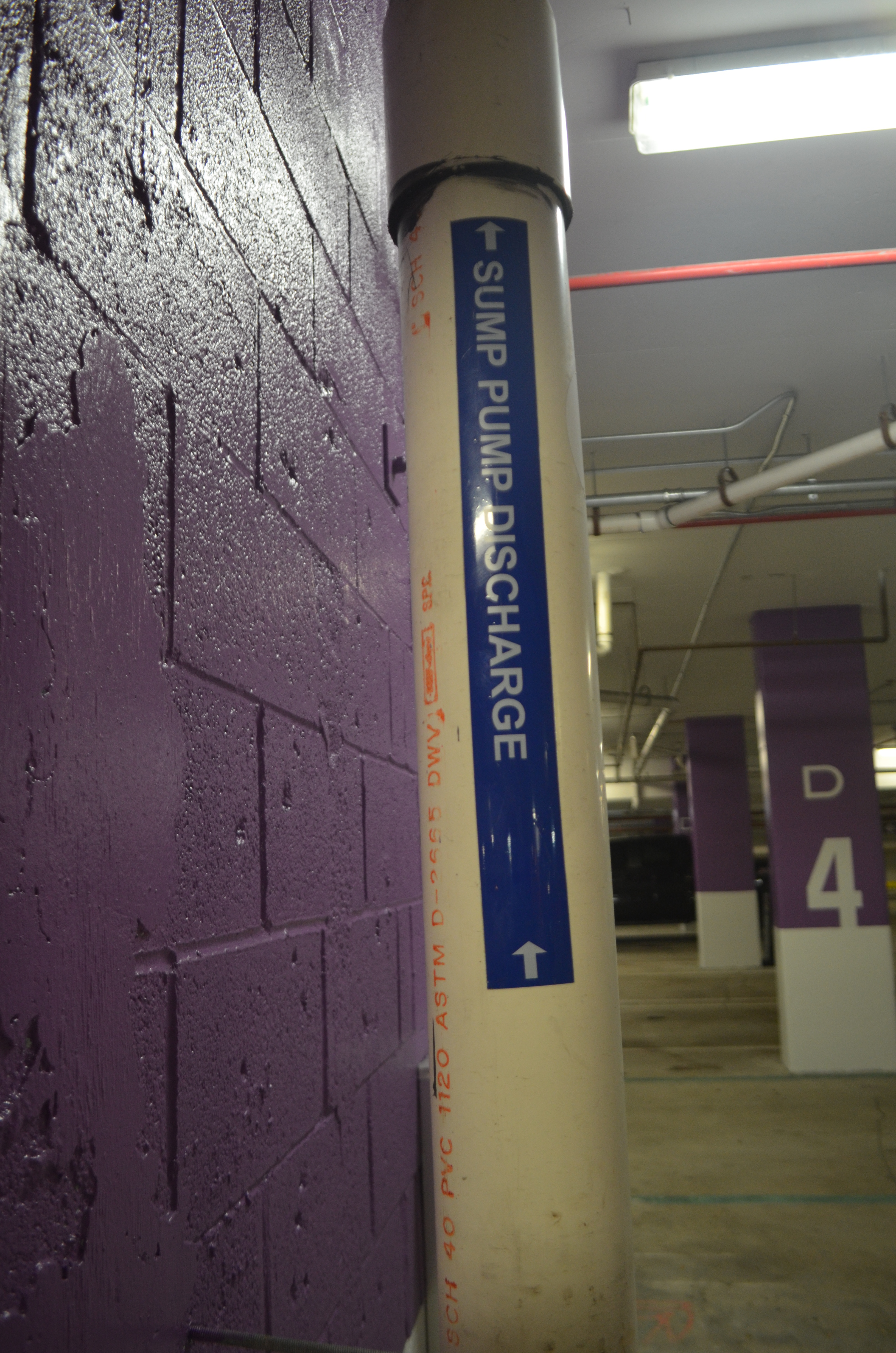 Transportation in South Florida#Underground parking Downtown Dadeland